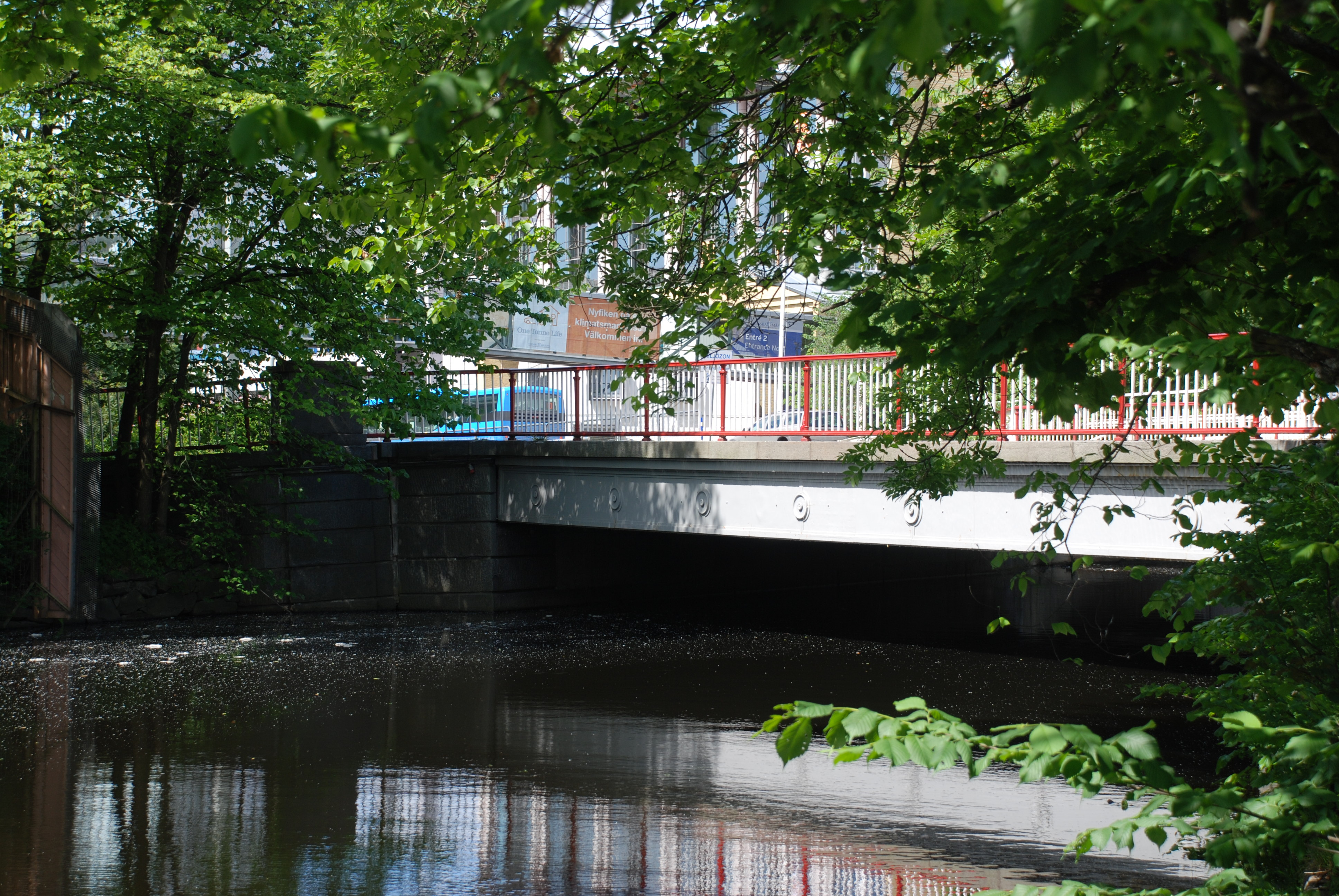 The bridge Underåsbron across Mölndalsån near Liseberg in Göteborg.